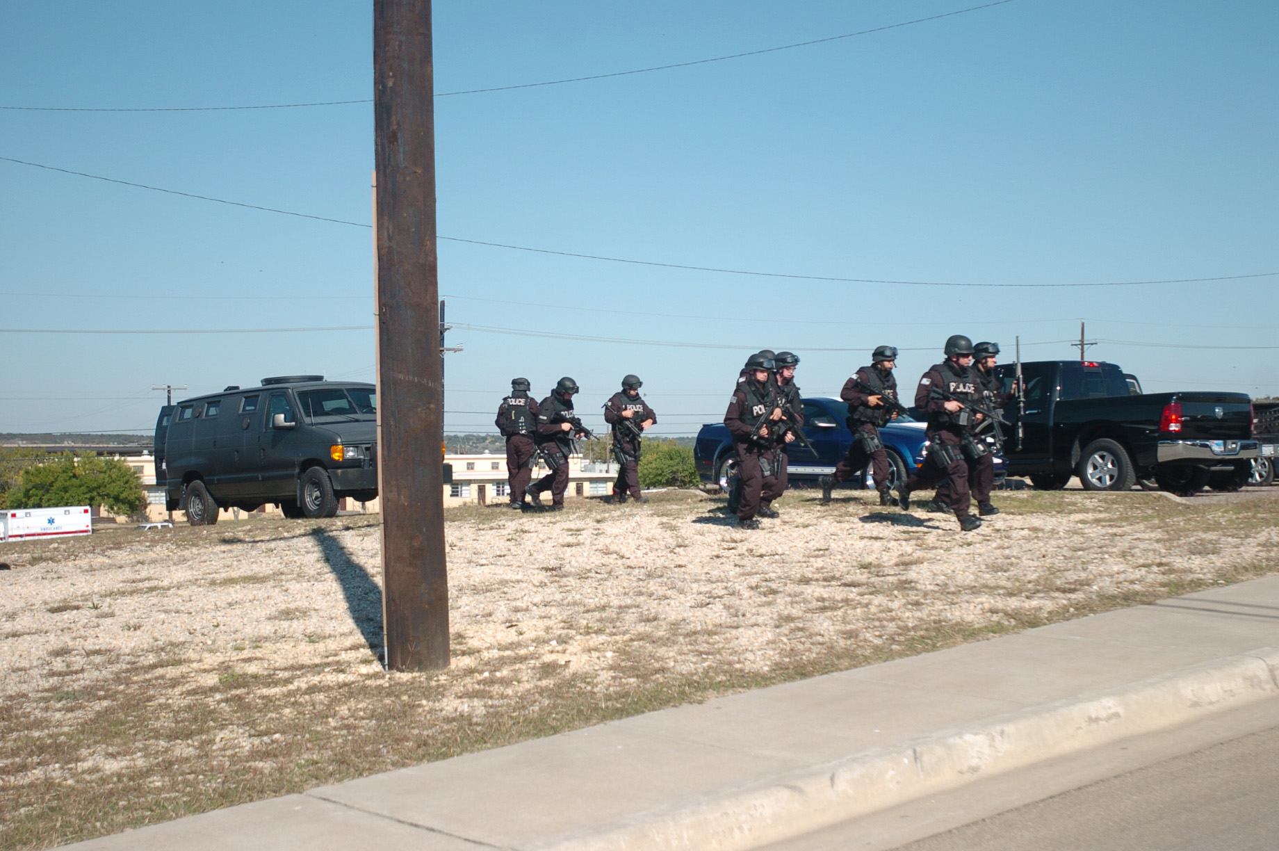 Members of the Fort Hood Special Reaction Team (SRT) (SWAT) approach a building with a gunman inside at Fort Hood, Texas, Nov. 5, 2009. The gunman's attack left 13 dead and numerous injured. VIRIN: 091106-A-9999X-006